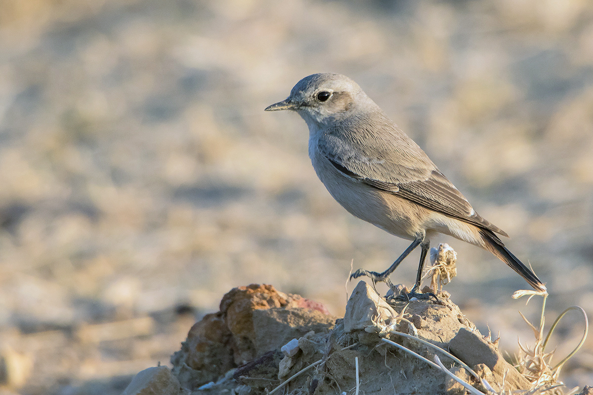 Individual at Desert National Park in Rajasthan India